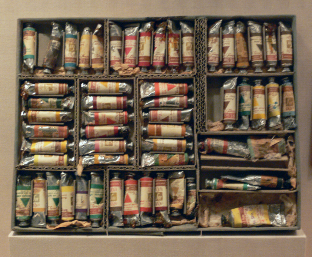 Sir Winston Churchill's box of Swiss paints (produced by Paul Maes) Dallas Museum of Art, Dallas, Texas; The Wendy and Emery Reves Collection